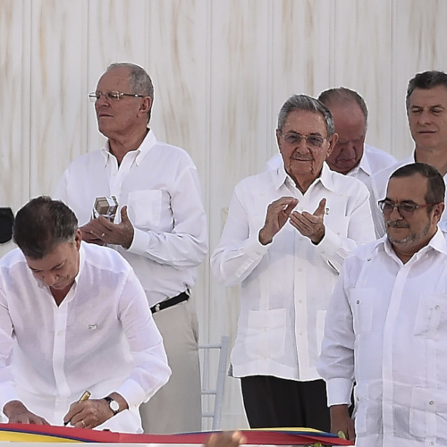 Colombia signs historic peace deal with Farc.